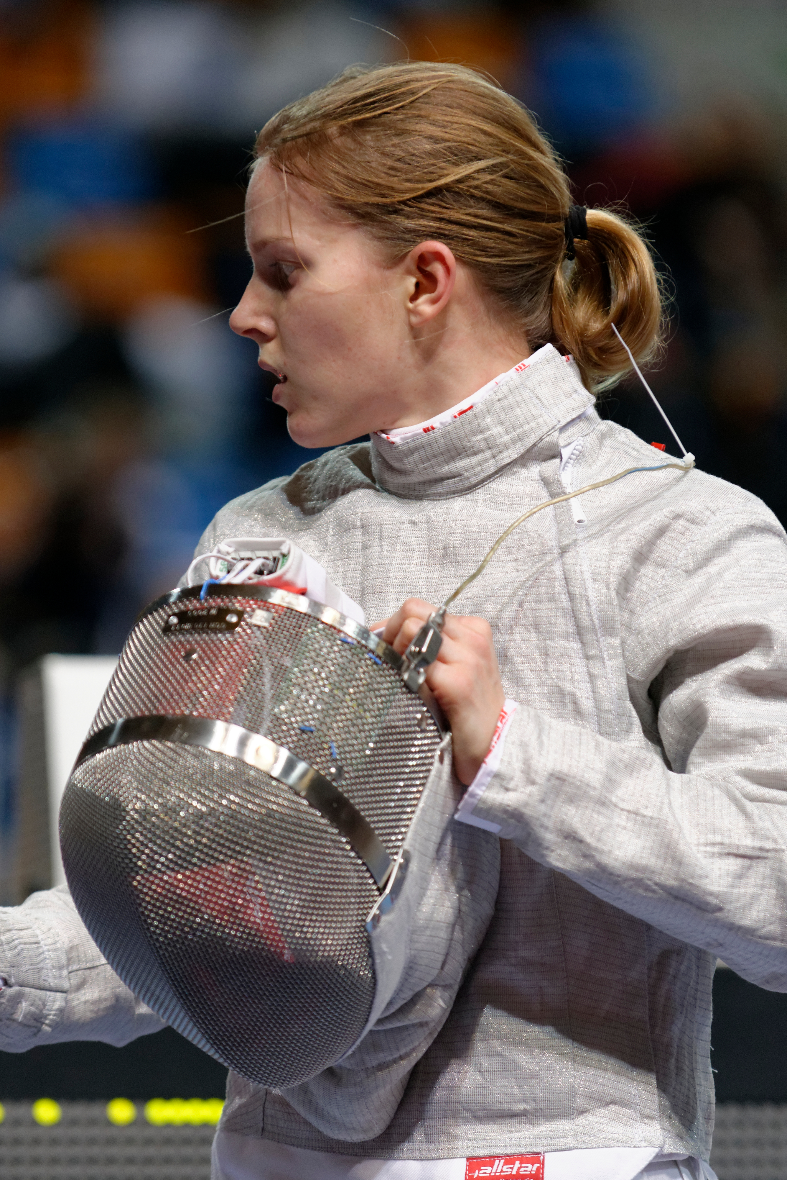 Yekaterina Dyachenko of Russia during her T16 bout against Italy's Martina Petraglia at the Trophée BNP Paribas-Grand Prix FIE, first stage of the women's sabre World Cup, in Orléans.